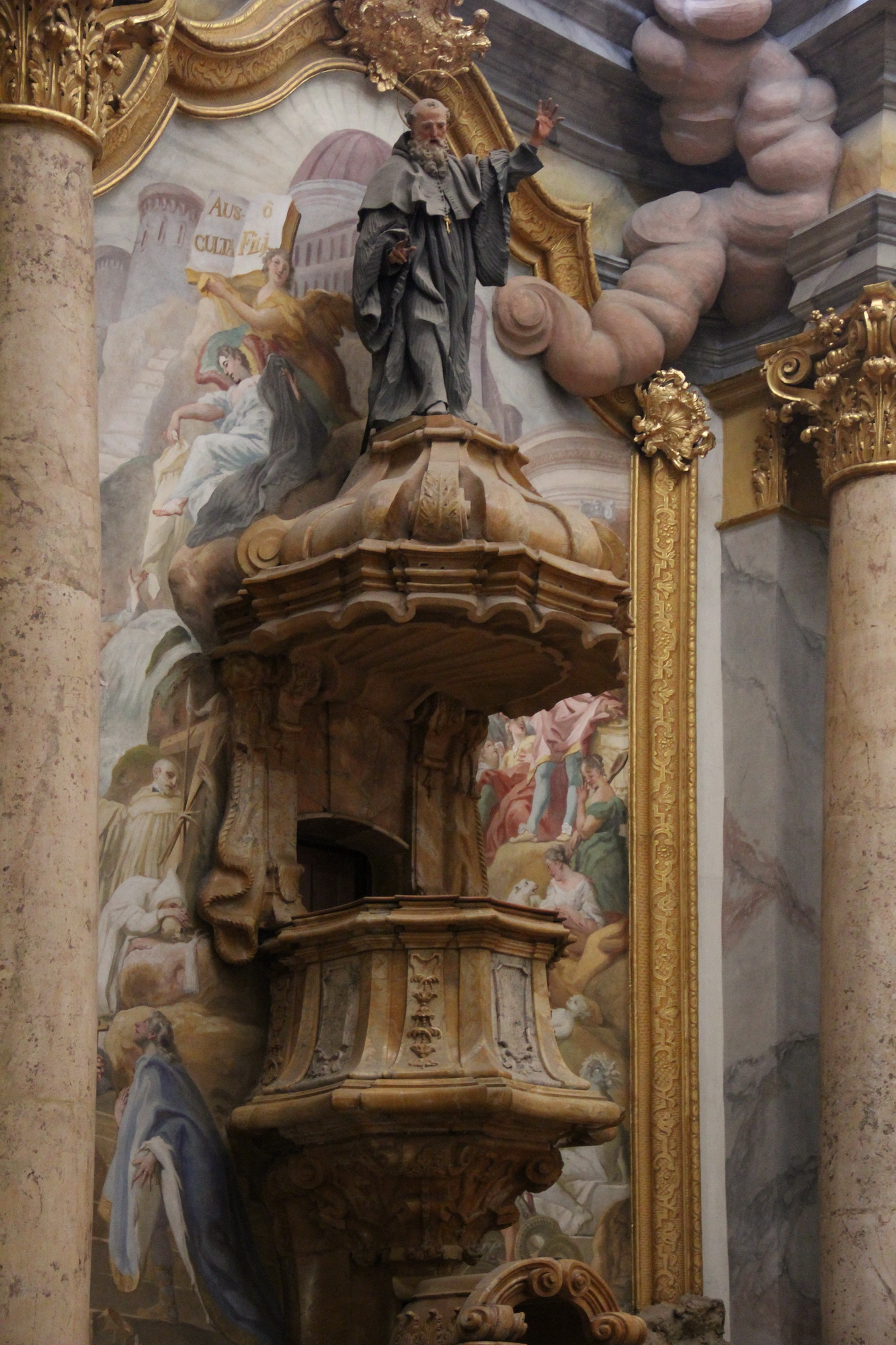 Weltenburg Abbey Native nameKloster WeltenburgLocationWeltenburg, Lower Bavaria, GermanyCoordinates48° 53′ 56″ N, 11° 49′ 11″ E Established7th century date QS:P,+650-00-00T00:00:00Z/7Web page control : Q260108 VIAF: 140754787 LCCN: n83039576 GND: 809502-4 WorldCat institution QS:P195,Q260108